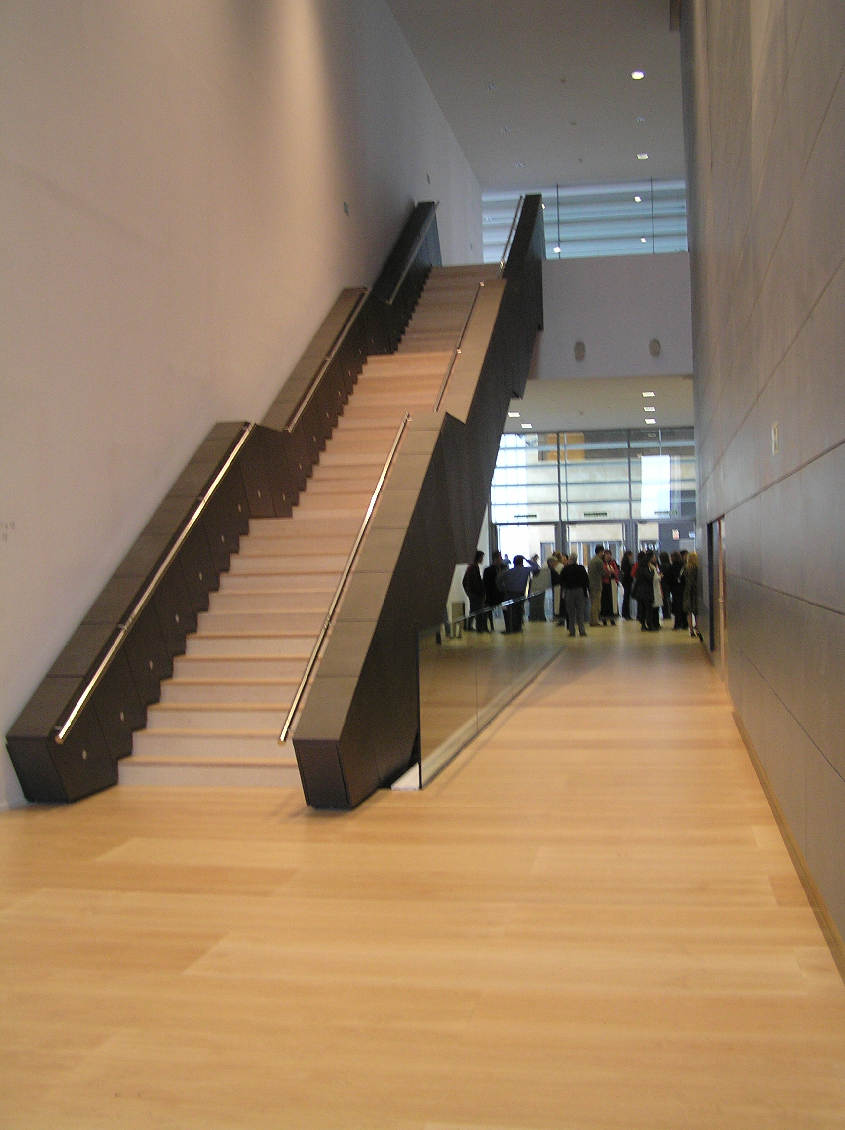 a very modern and functional building